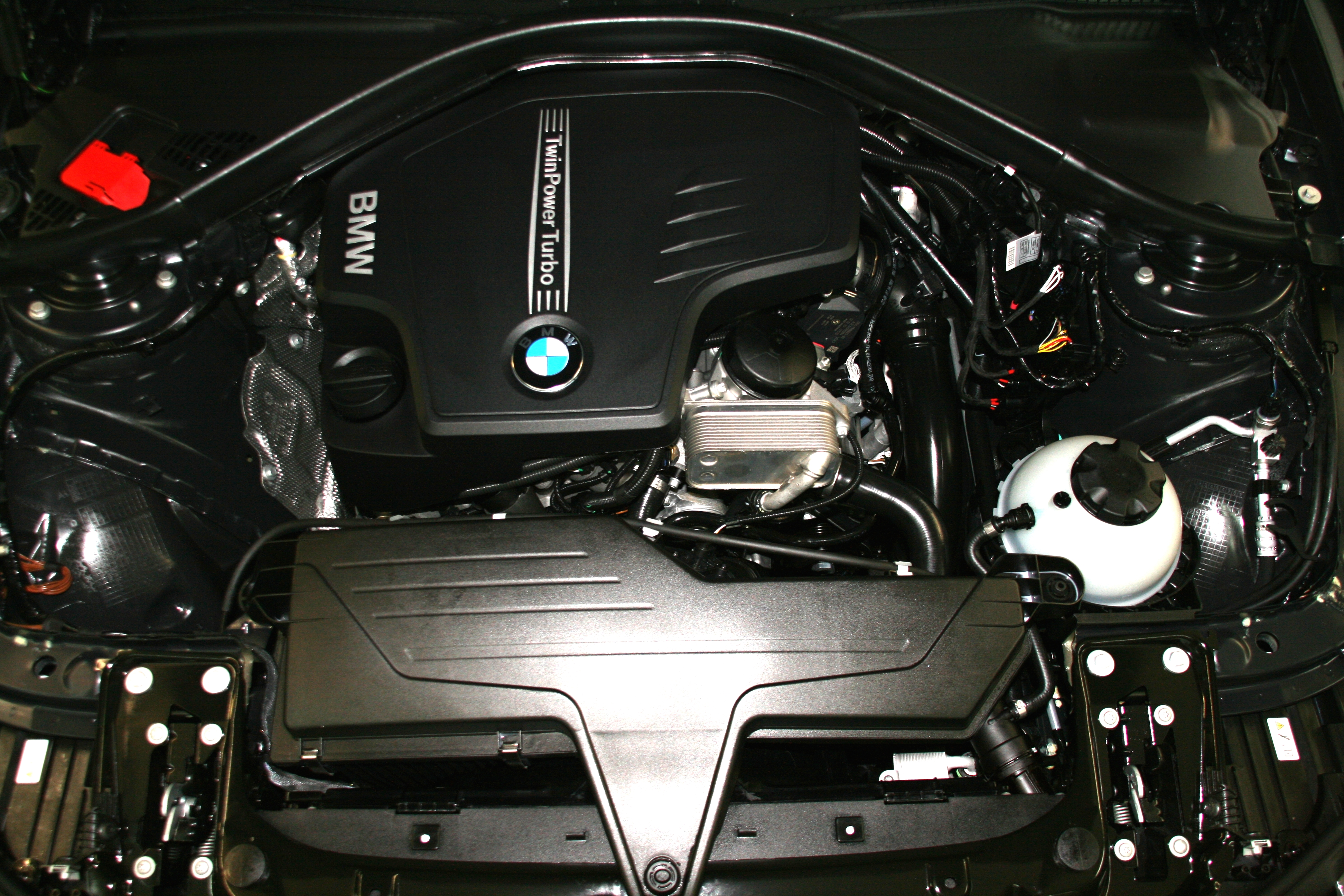 BMW 328i F30 2012 engine